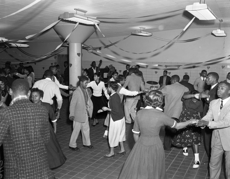 Title: Valentine dance, school. Creator: Adolph B. Rice Studio Date: February 15, 1956 Identifier: Rice Collection 929E Format: 1 negative, safety film, 4 x 5 in. Repository: Library of Virginia, Prints and Photographs, 800 E. Broad St., Richmond, VA, 23219, USA, :8881/R